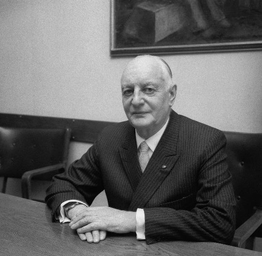 Photograph of the Finnish businessman, director of Wärtsilä Wilhelm Wahlforss (1891–1969).